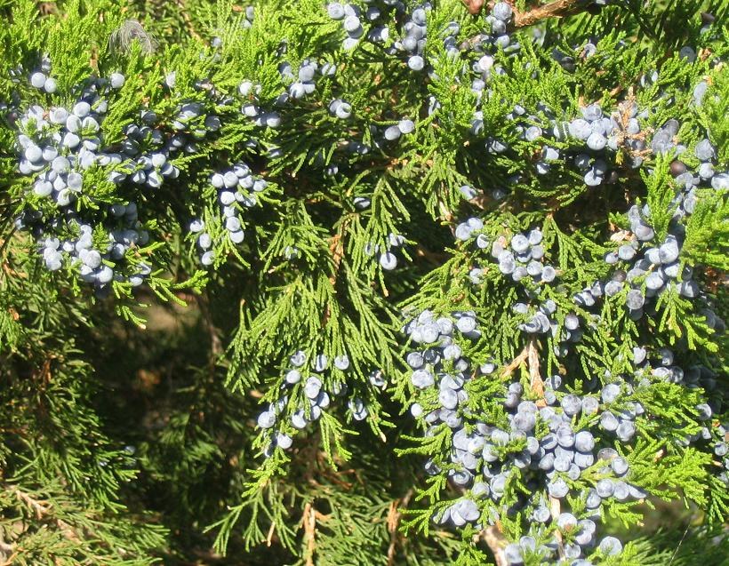 Eastern Juniper Juniperus virginiana. Photo by Quadell